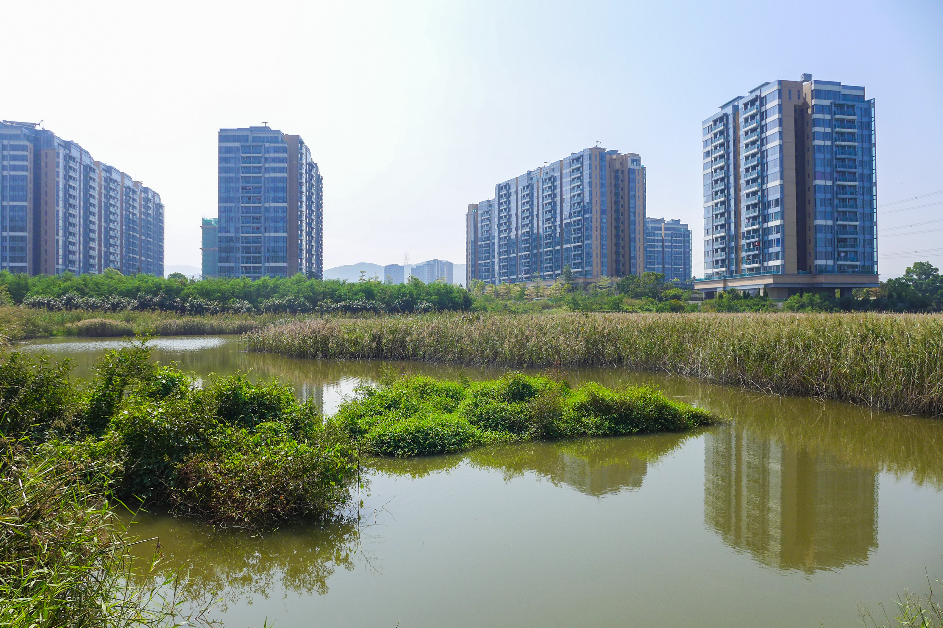 Park YOHO Fairyland overview